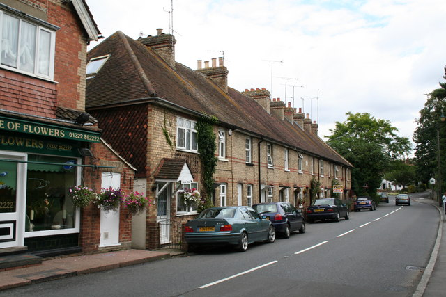 Artisans' cottages, High Street, Eynsford, Kent These small houses are now highly desirable properties, with price tags to match